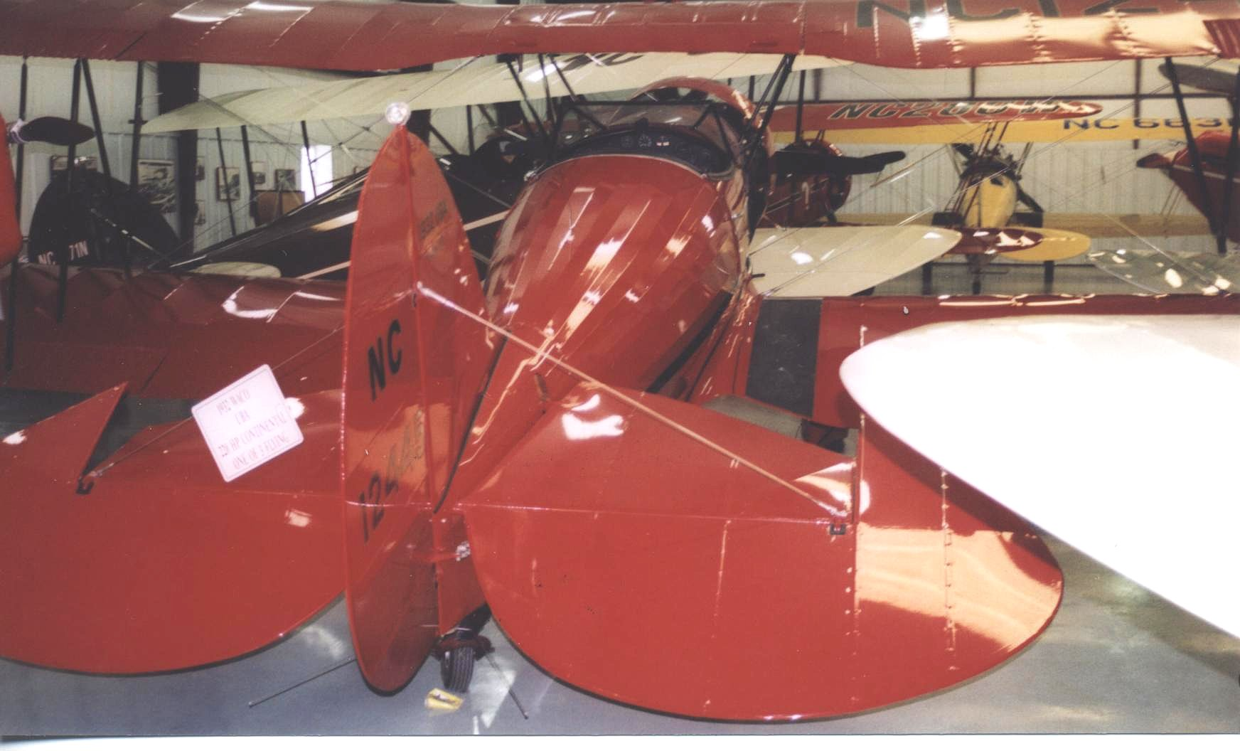 Waco PBA side-by-seating biplane NC12445 of 1932 at the Historic Aircraft Restoration Museum, Dauster Field, St Louis, MO